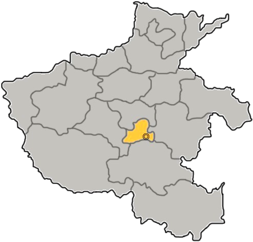 The prefecture-level city of Luohe is highlighted on this map of Henan province, People's Republic of China.